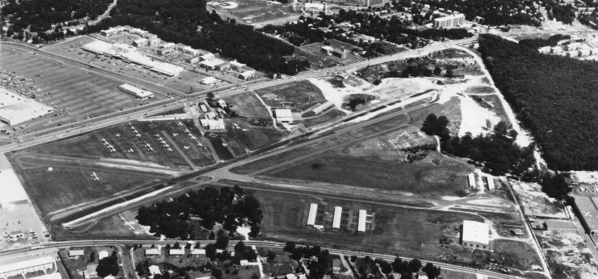 Aerial view of the defunct Washington-Virginia Airport located in Fairfax County, Virginia, circa 1970.